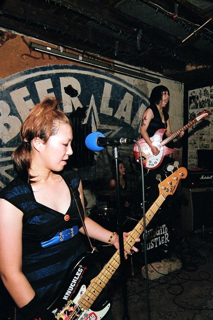 Gito Gito Hustlers performing at Beer Land, Austin, Texas.